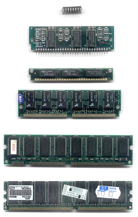 Different RAM types. From top to bottom: DIP, SIPP, SIMM 30 pin, SIMM 72 pin, DIMM (168-pin), DDR DIMM (184-pin).